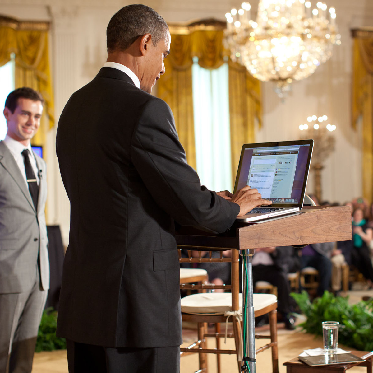 Barack Obama tweeting on July 6, 2011